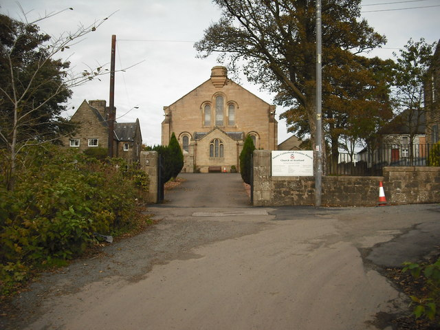 Shotts Calderhead- Erskine Parish Church Formed by the union of Calderhead, Erskine and Allanton churches in 1989. This building and the church in the village of Allanton are still used.